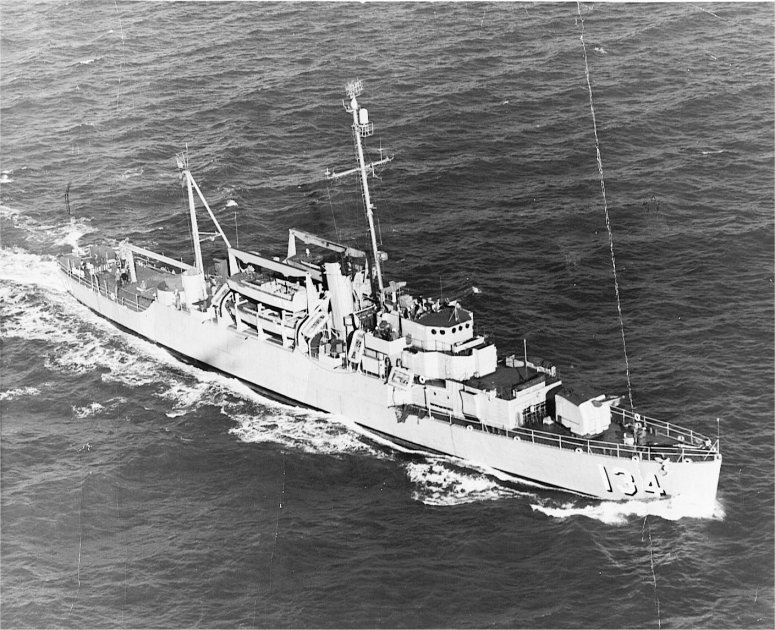 The U.S. Navy high-speed transport USS Kleinsmith (APD-134) underway off Guantanamo Bay, Cuba, circa 1948-1949.